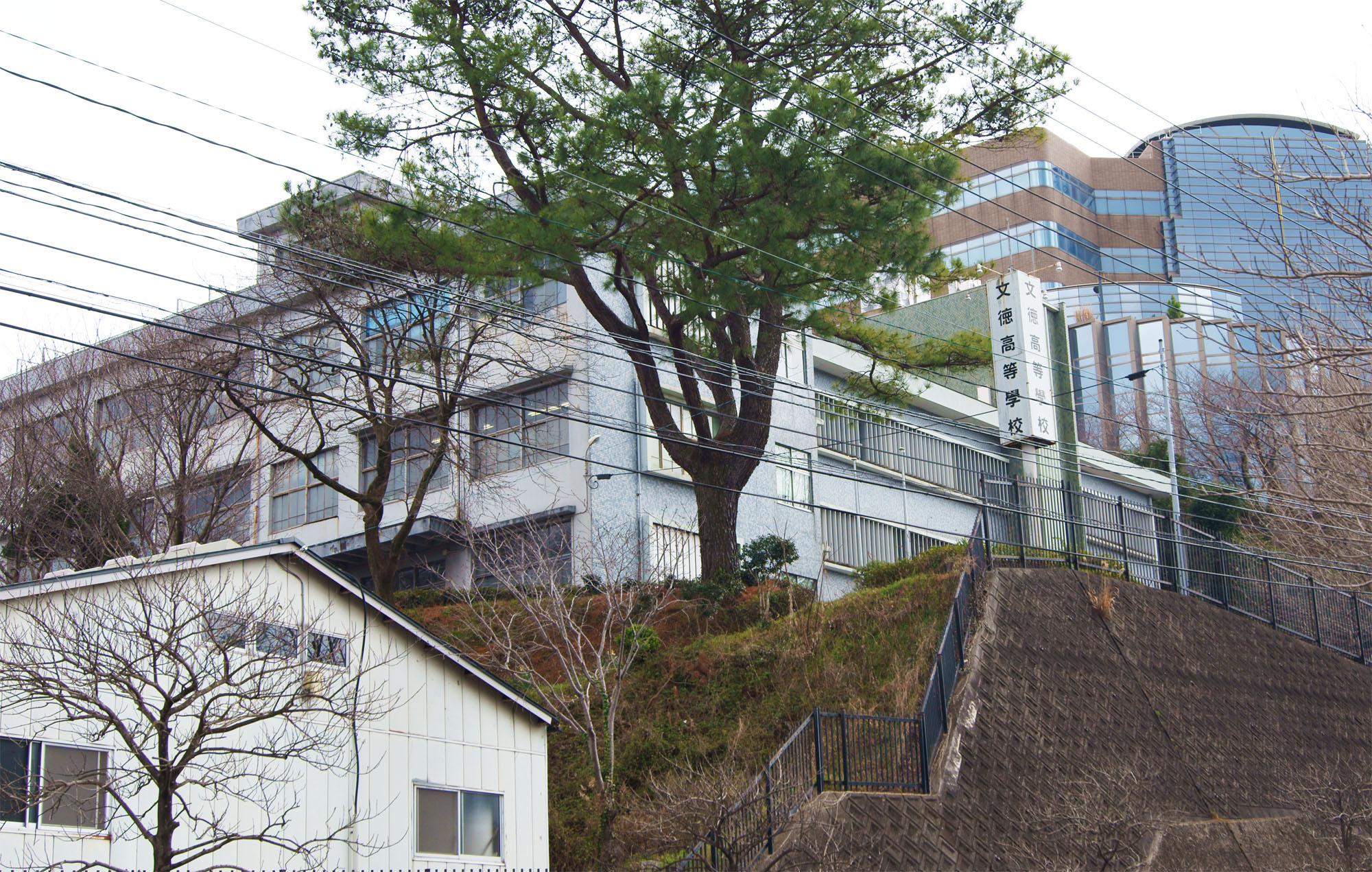 Buntoku High School in Kumamoto, Kumamoto, Japan